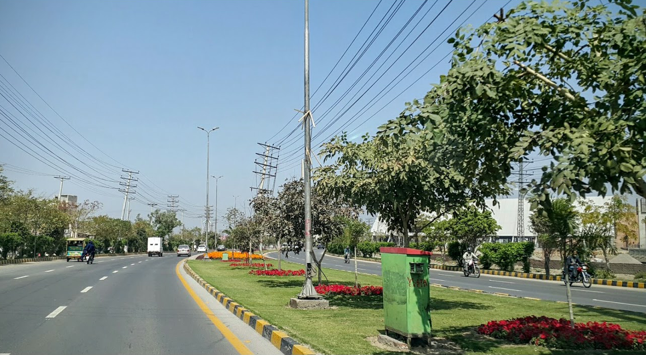 Nazaria-e-Pakistan Avenue